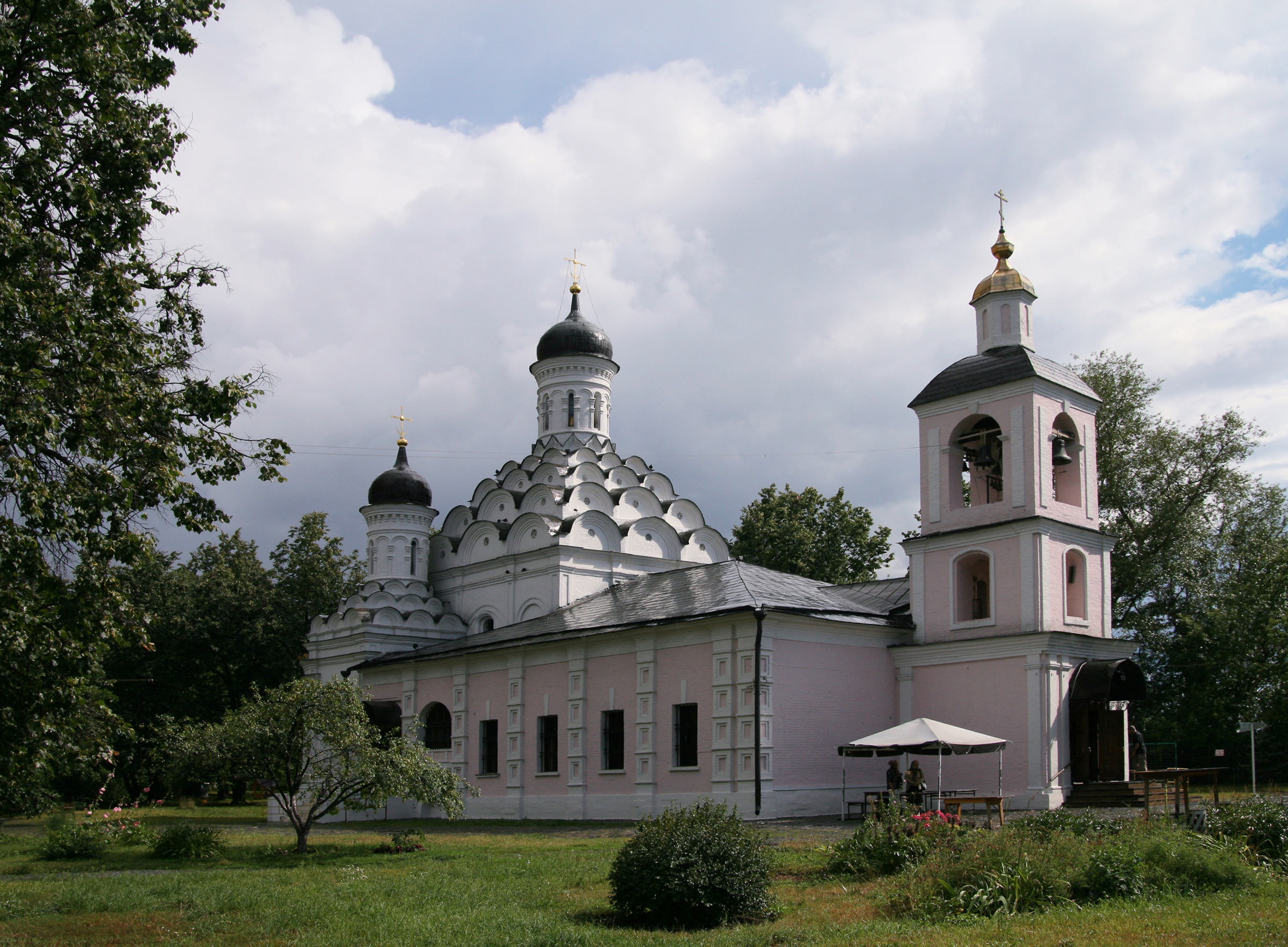 Holy Trinity Church in Khoroshevo, 1696-1698